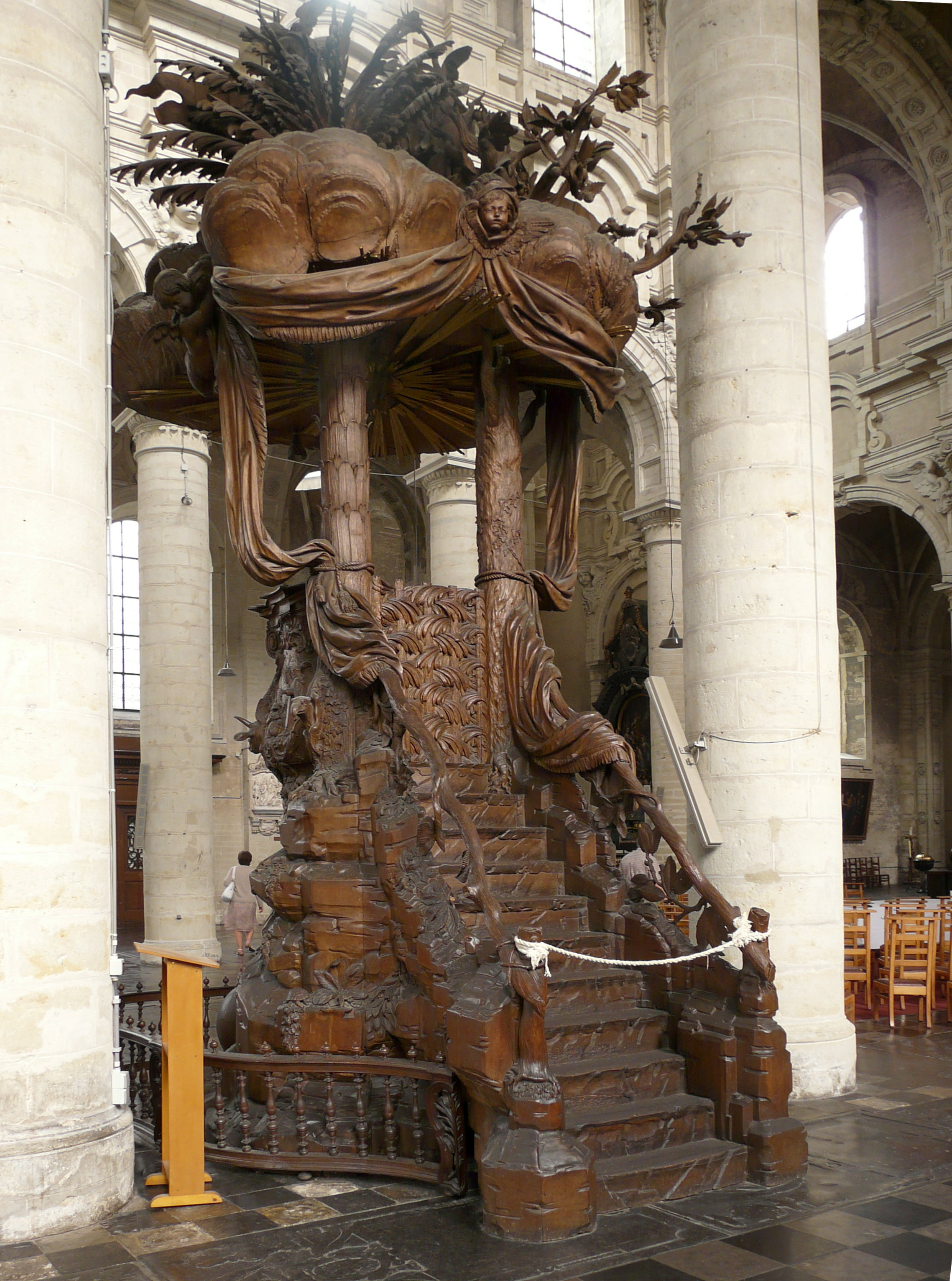 Pulpit in the Saint John the Baptist at the Béguinage (Brussels), the pulpit came from a Dominican church in Mechelen and is attributed to Joseph Lambert Parant based on a design of Egide-Joseph Smeyers of Mechelen, date: 1757